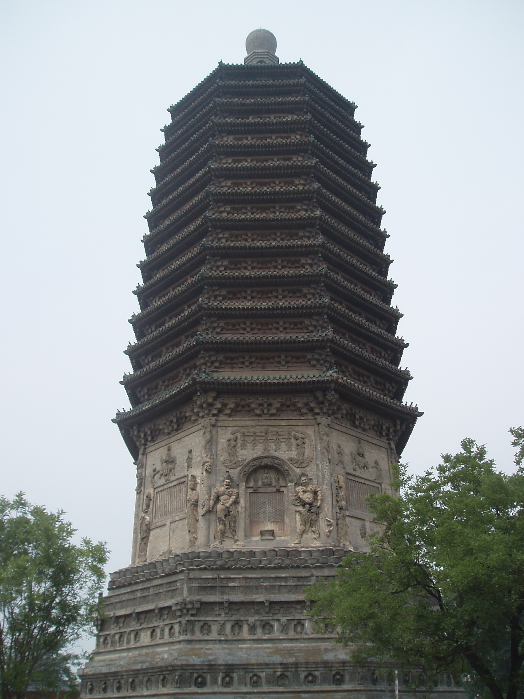 Taken facing north